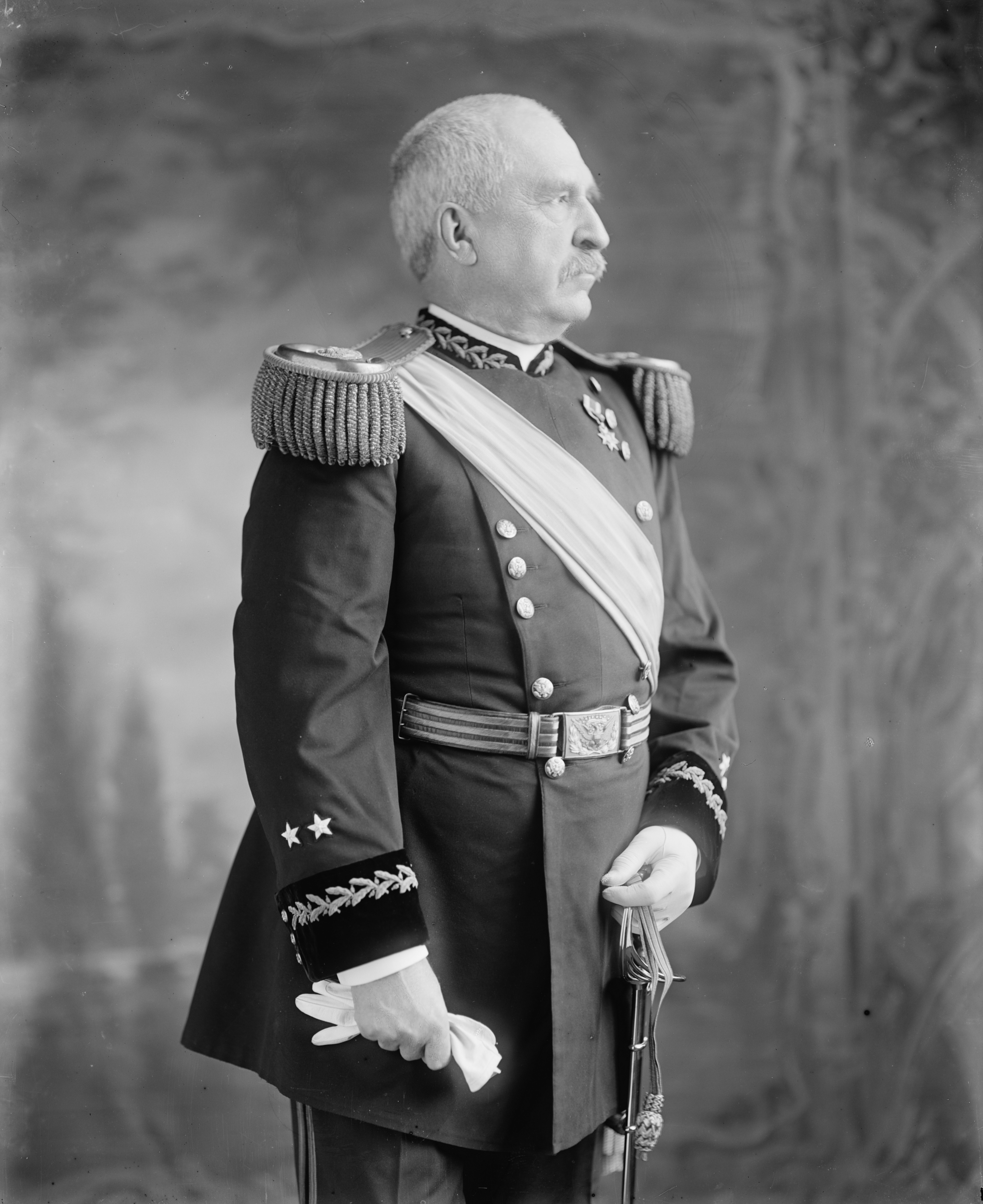 Title: DAVIS, G.W. GENERAL. Abstract/medium: 1 negative : glass ; 8 x 10 in. or smaller